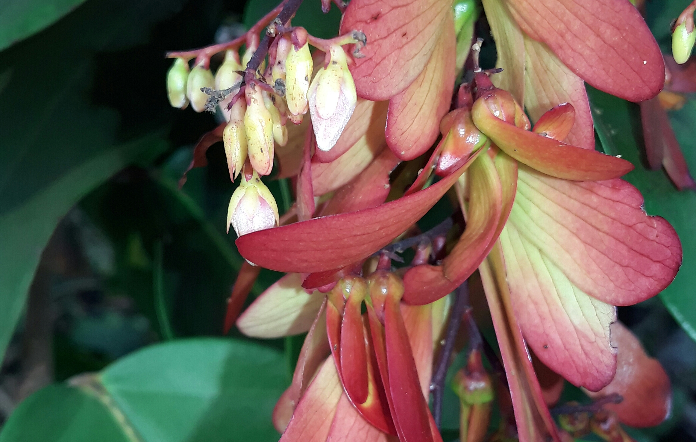 Flower of Hopea parviflora.